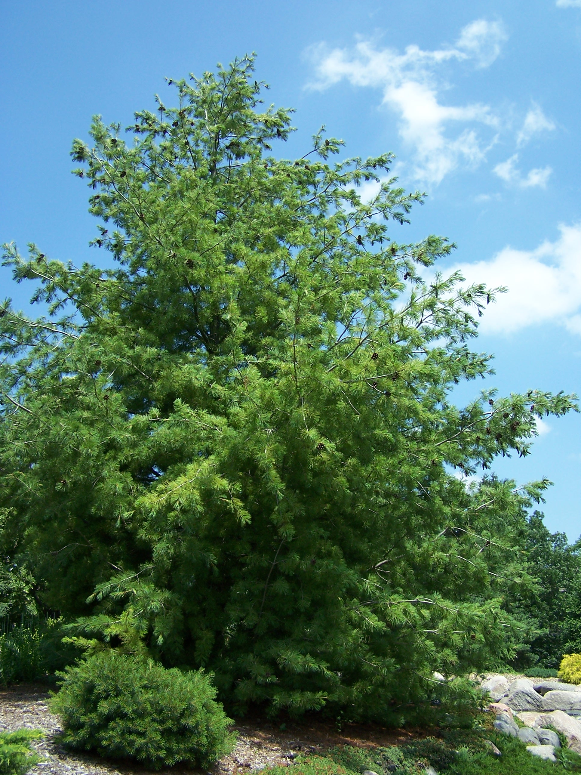 Pinus peuce (Macedonian Pine) × P. parviflora (Japanese White Pine) at Minnesota Landscape Arboretum